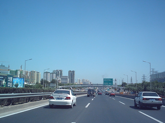 Jingtong Expressway (Start). DF08 (English) 2004 image.